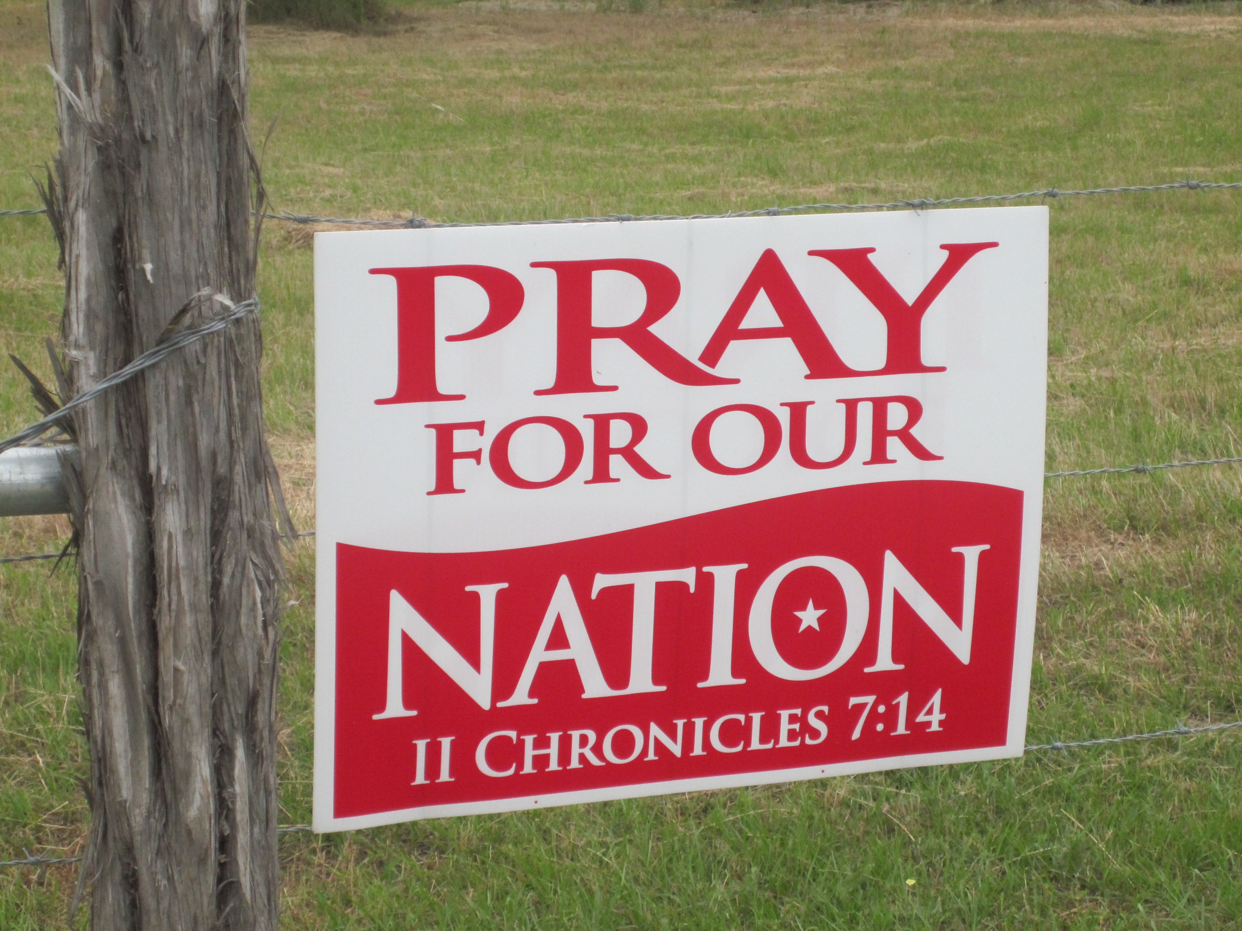 I took photo with Canon camera.